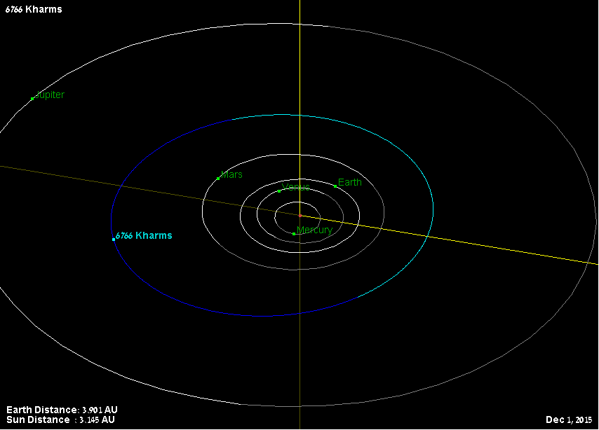 6766 Kharms orbit and his position on 01 Dec 2015 (NASA Orbit Viewer applet)